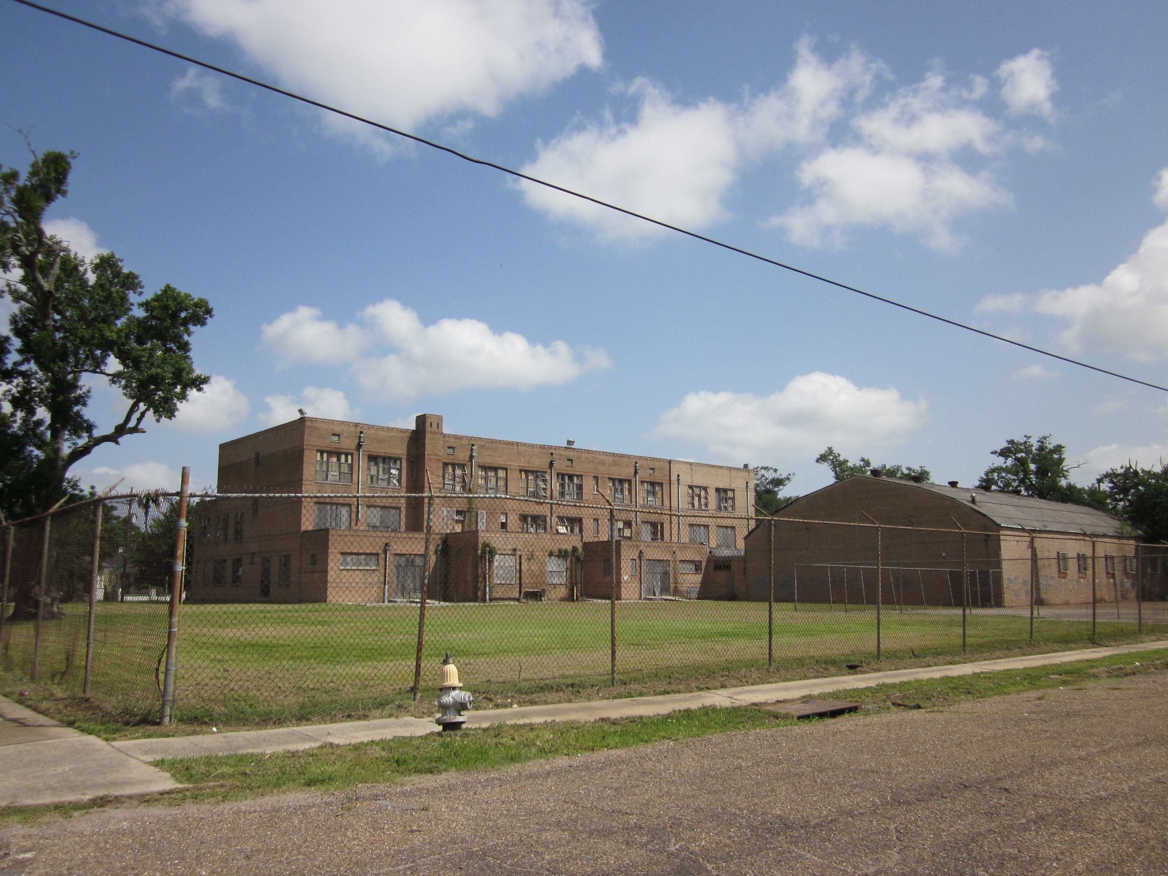 Carrollton section of New Orleans. Alfred Priestly School